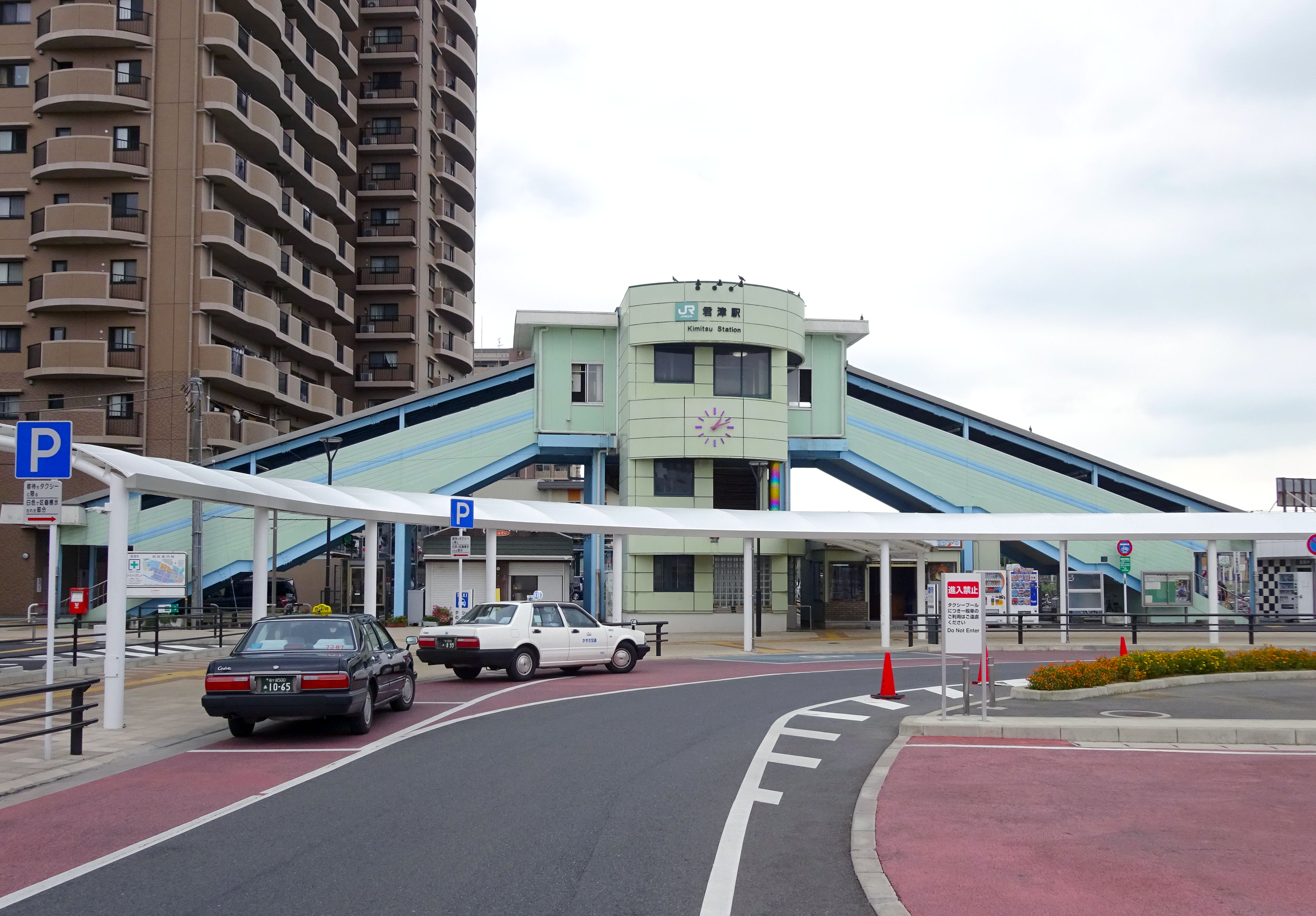 North Entrance of Kimitsu Station